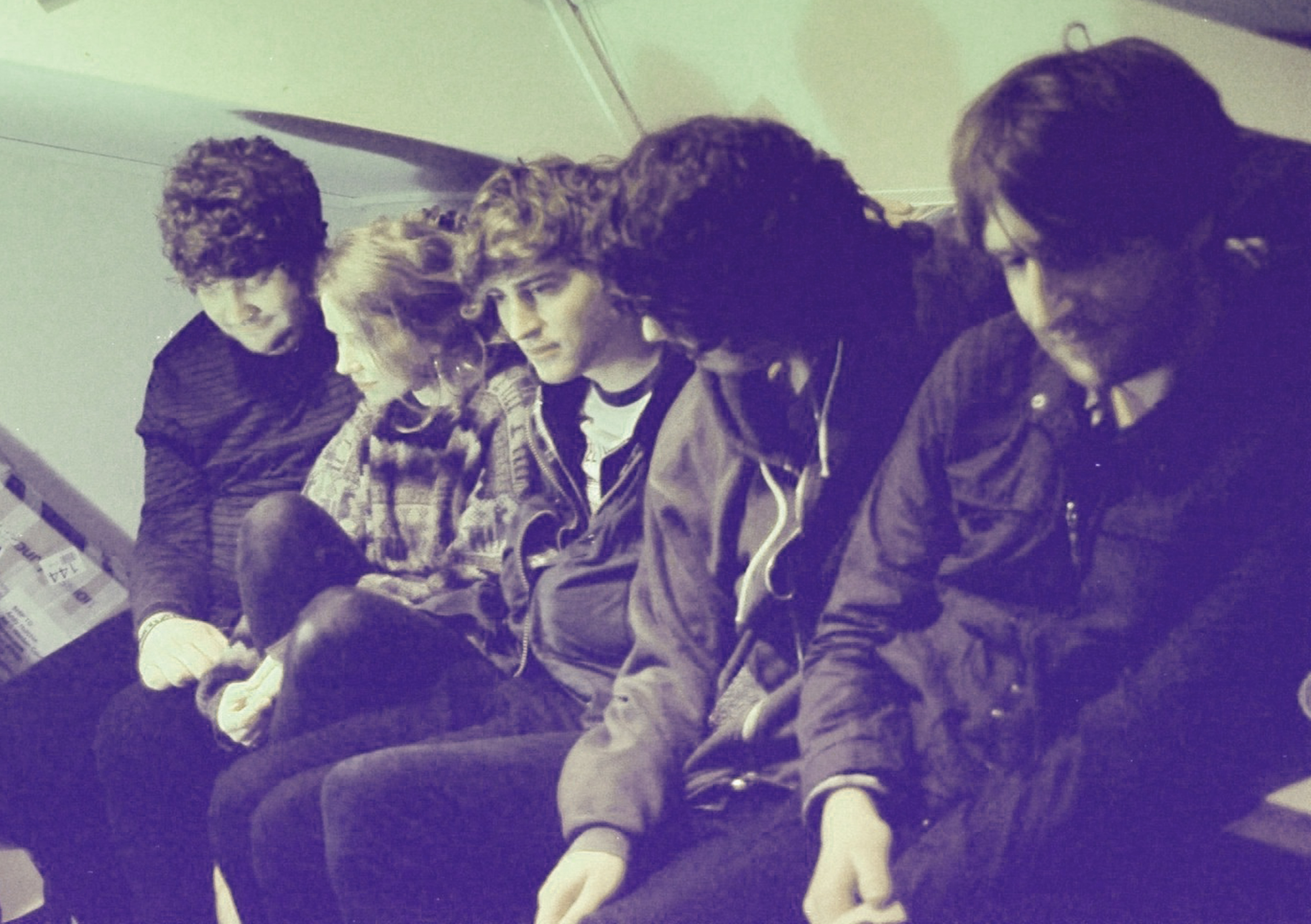 Oliver Wilde and his band, February 2014